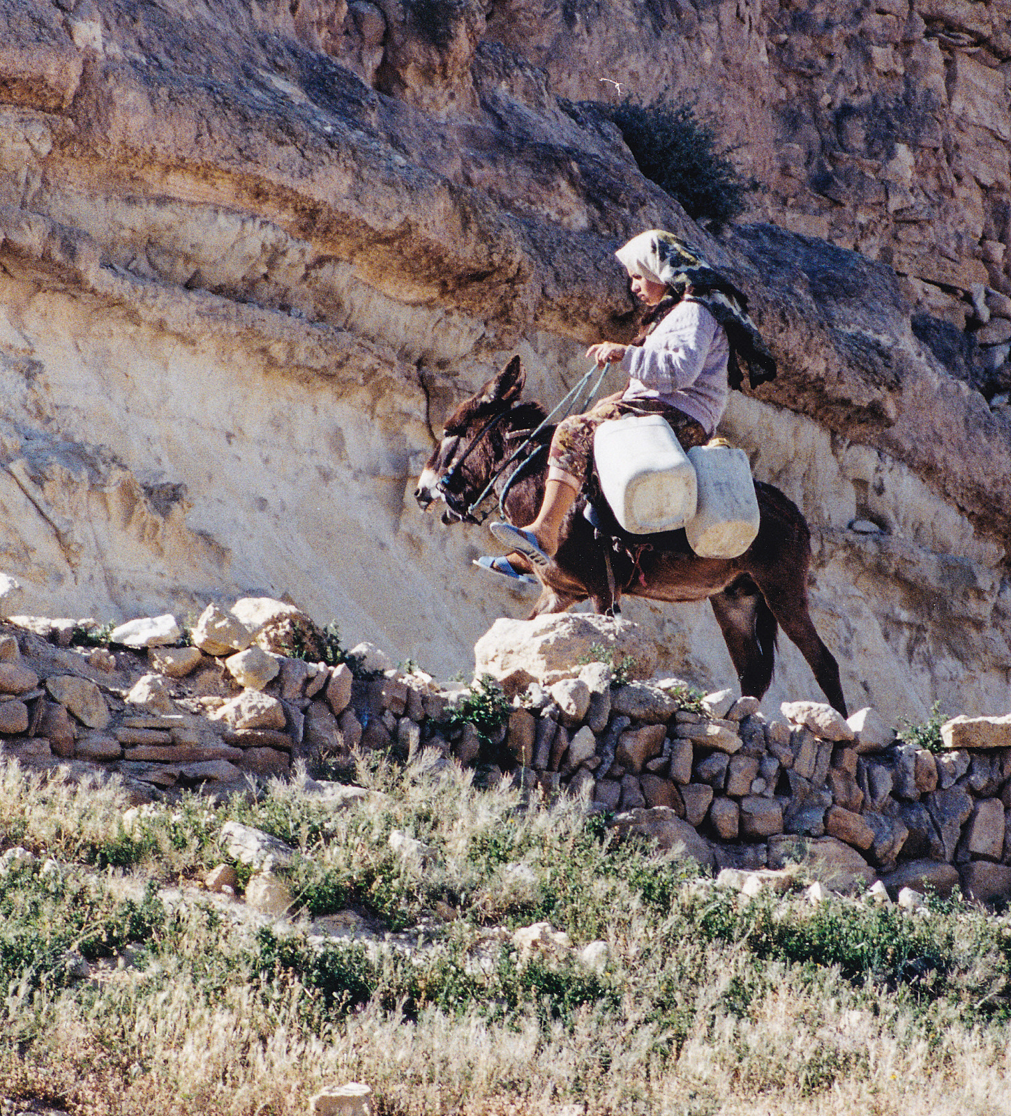 Woman riding on a donkey in the mountains in Tunisia